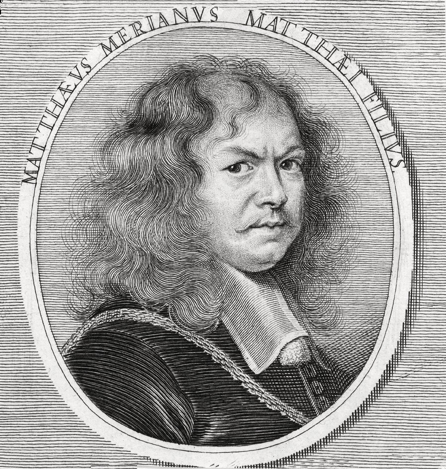 Engraved portrait of Matthäus Merian der Jüngere (1621-1687)